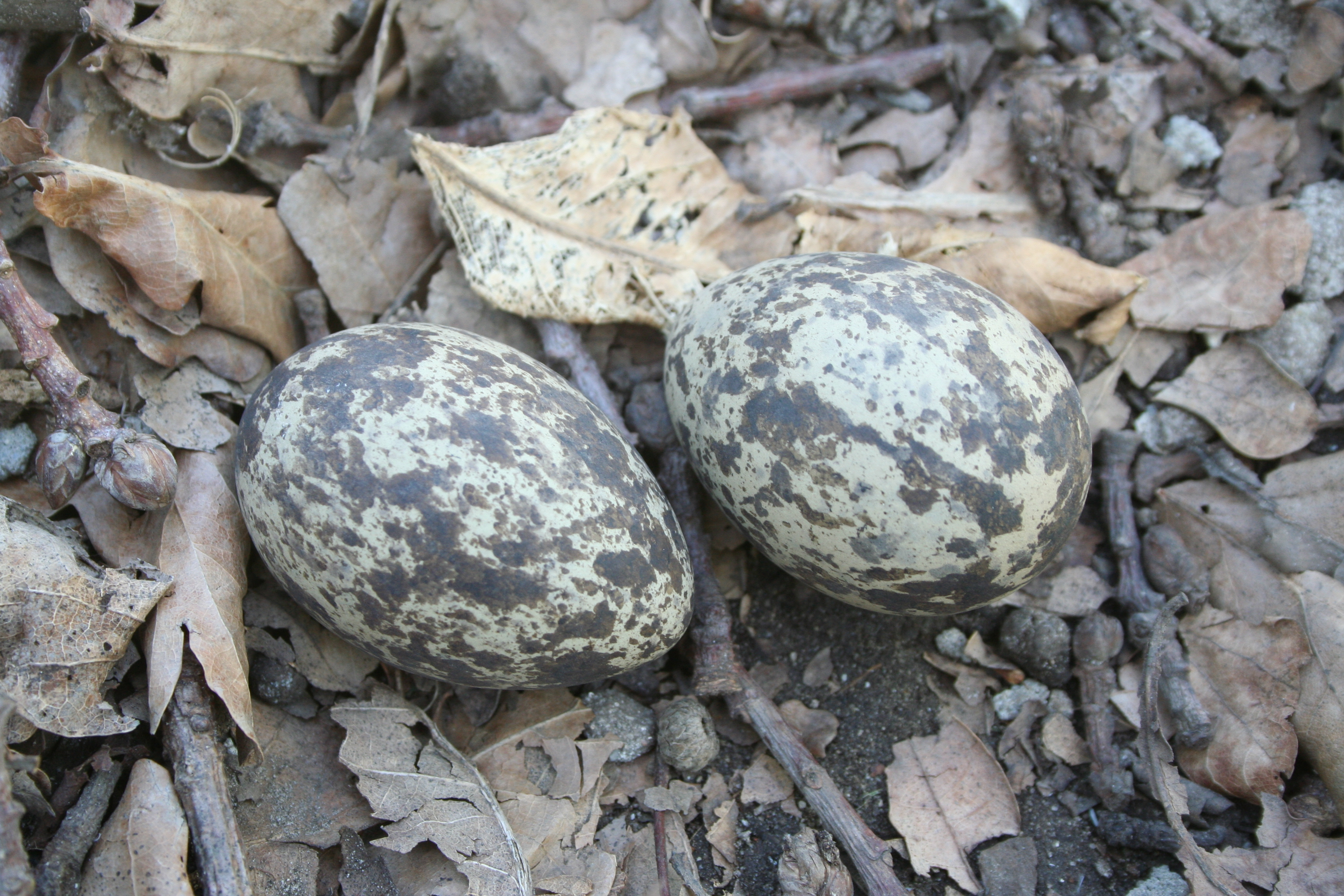 Burhinus Capensis nest with two eggs, Cape Town oct 2012